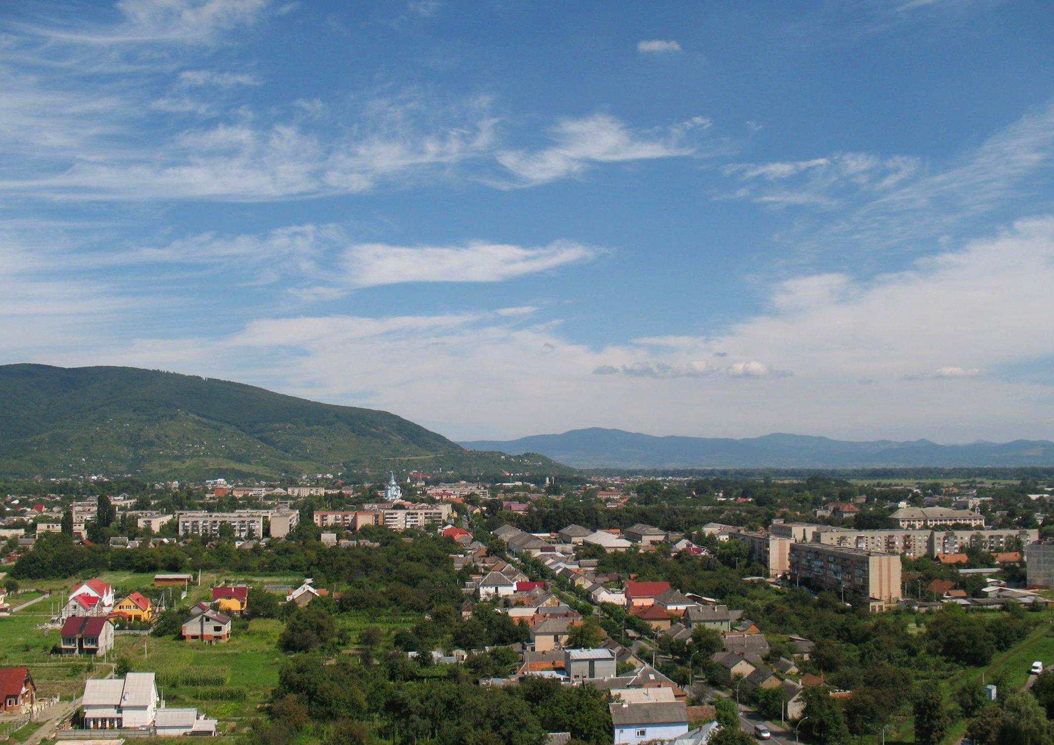 City of Vynohradiv panorama looking east